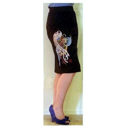 TSkirt, made from a tshirt, the TSkirt is generally modified to result in a pencil-shaped skirt, with invisible zippers, full length 2-way separating side zippers, as well as artful fabric overlays and yokes.